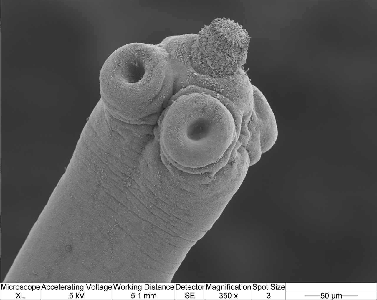 Scolex of the rodent tapeworm Hymenolepis microstoma